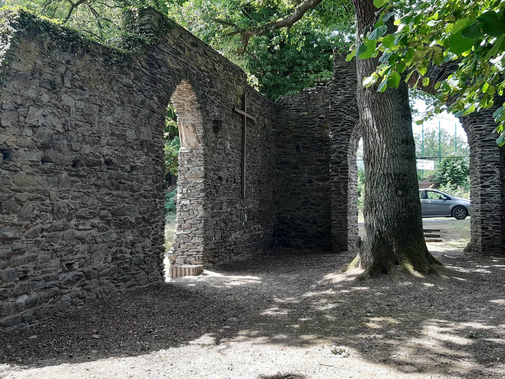 ruins of the former chapel Kreuzkirche